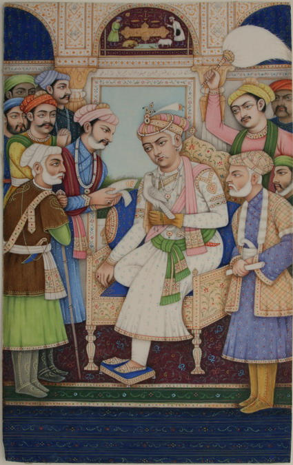 Posthumous portrait of Mughal Emperor Akbar enthroned with hawk receiving dignitaries. Anglo-Indian (or 'Company School') at Delhi, circa late 19th century. Opaque watercolour on ivory. 19.3 x 12cm Exceptionally finely painted as can be best appreciated using zoom feature below Ref: Delhi Akbar 000523 Price: £850